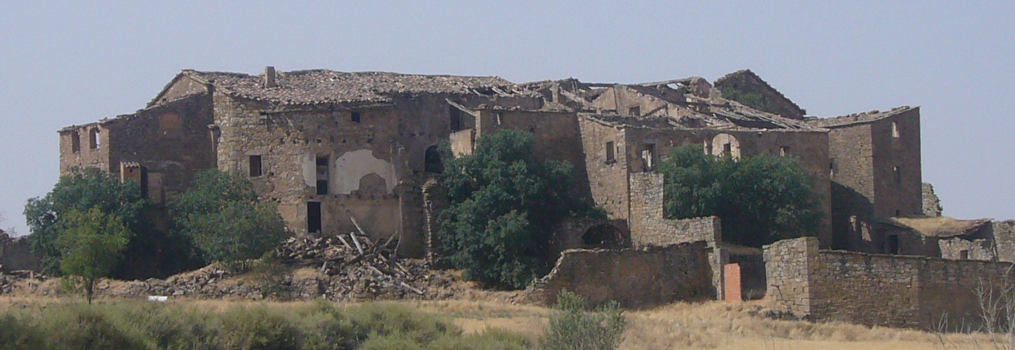 Panorama of Conill village, Tàrrega, Catalonia